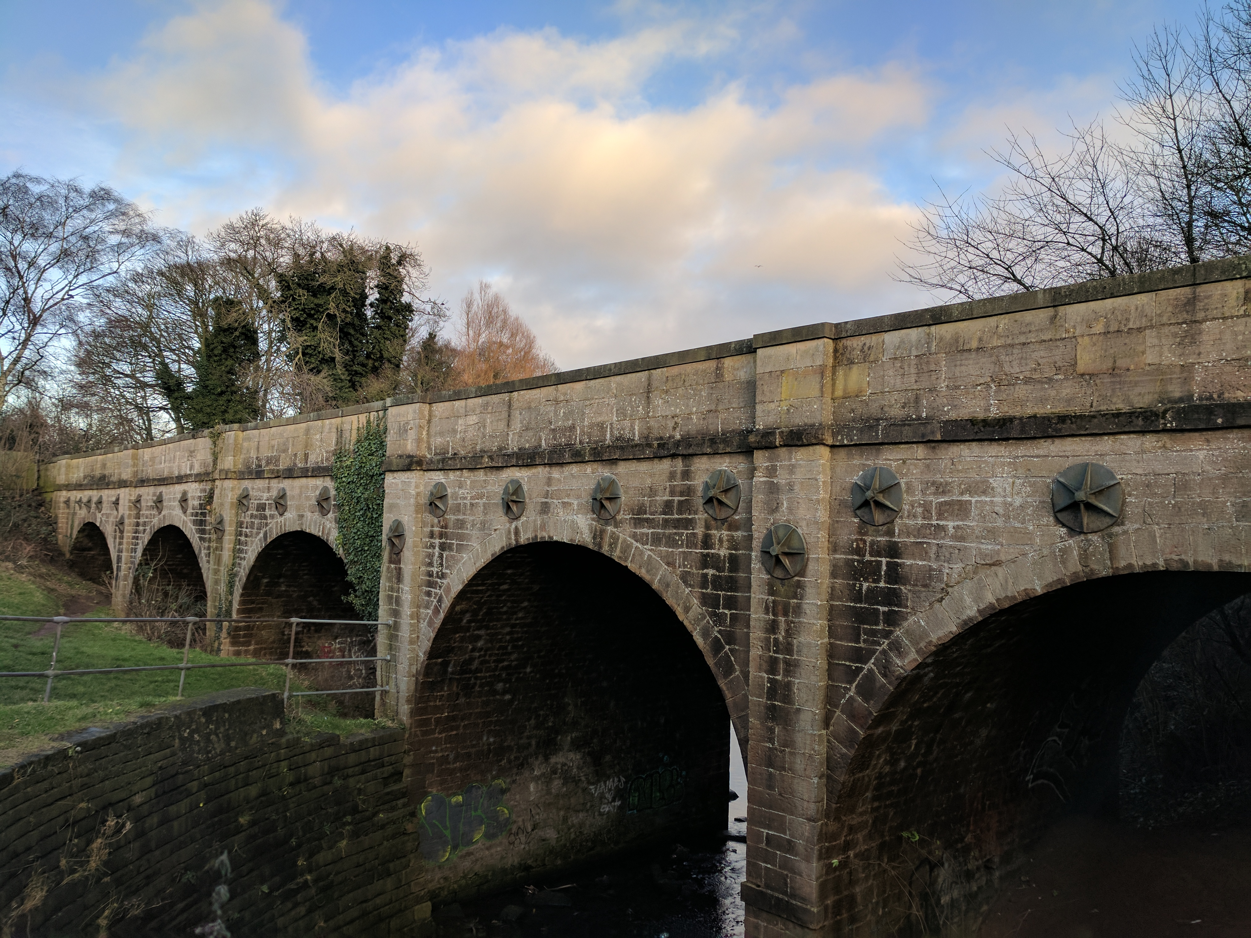 King's Mill Viaduct, Kings Mill Lane, Mansfield (Opposite Kings Mill Reservoir) Wikidata has entry Q17642882 with data related to this item.